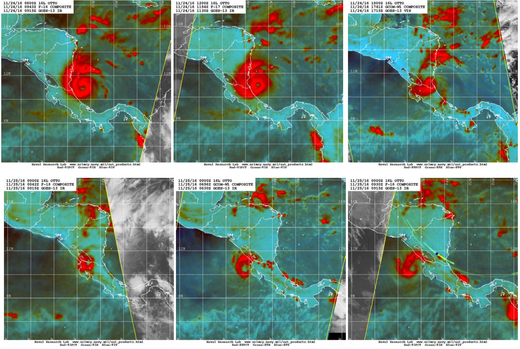 A series of microwave satellite images depicting the inner structure of Hurricane Otto in November 2016 as it traversed Nicaragua and Costa Rica.